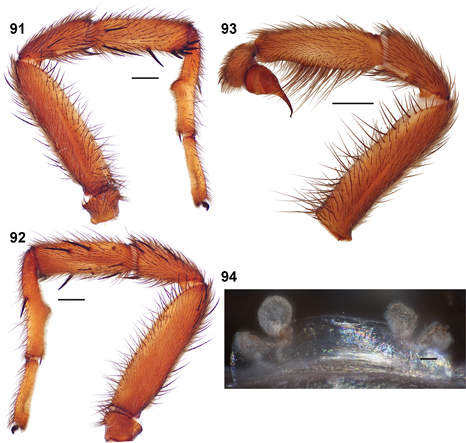 Aptostichus angelinajolieae Bond, 2008. 91–93 – male paratype from Monterey Co., Carmel; scale bars = 1.0 mm 91 – retrolateral aspect right leg I; 92 – prolateral aspect right leg I; 93 – retrolateral aspect pedipalp. 94 – cleared spermathecae, female holotype from Monterey Co., Carmel Valley; scale bar = 0.25 mm.